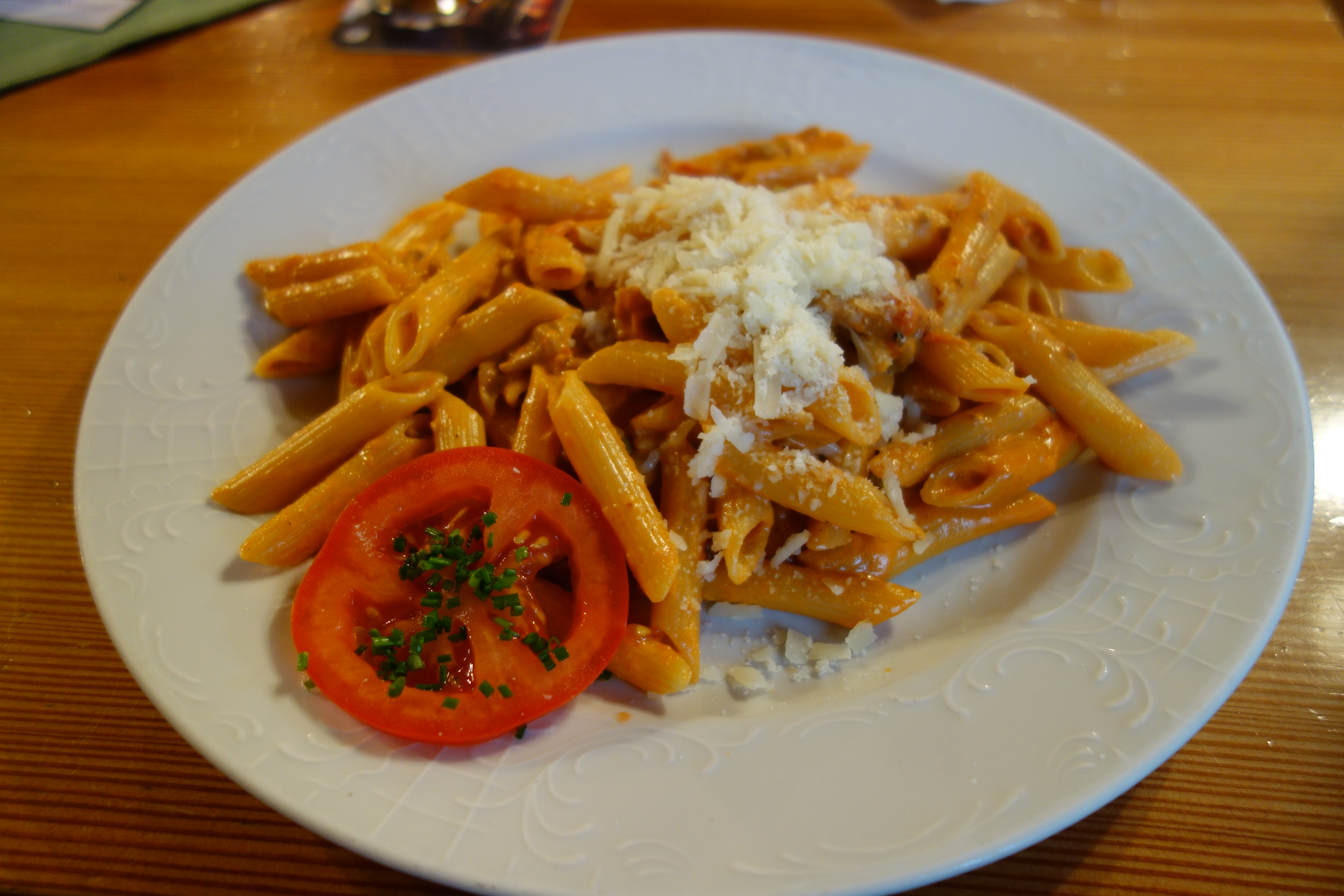 Hirtenmaccharoni